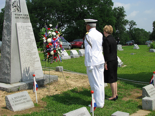 Jaarlijkse herdenking bij de Erebegraafplaats voor gesneuvelde Nederlandse luchtmachtpiloten in Jackson, MS, USA